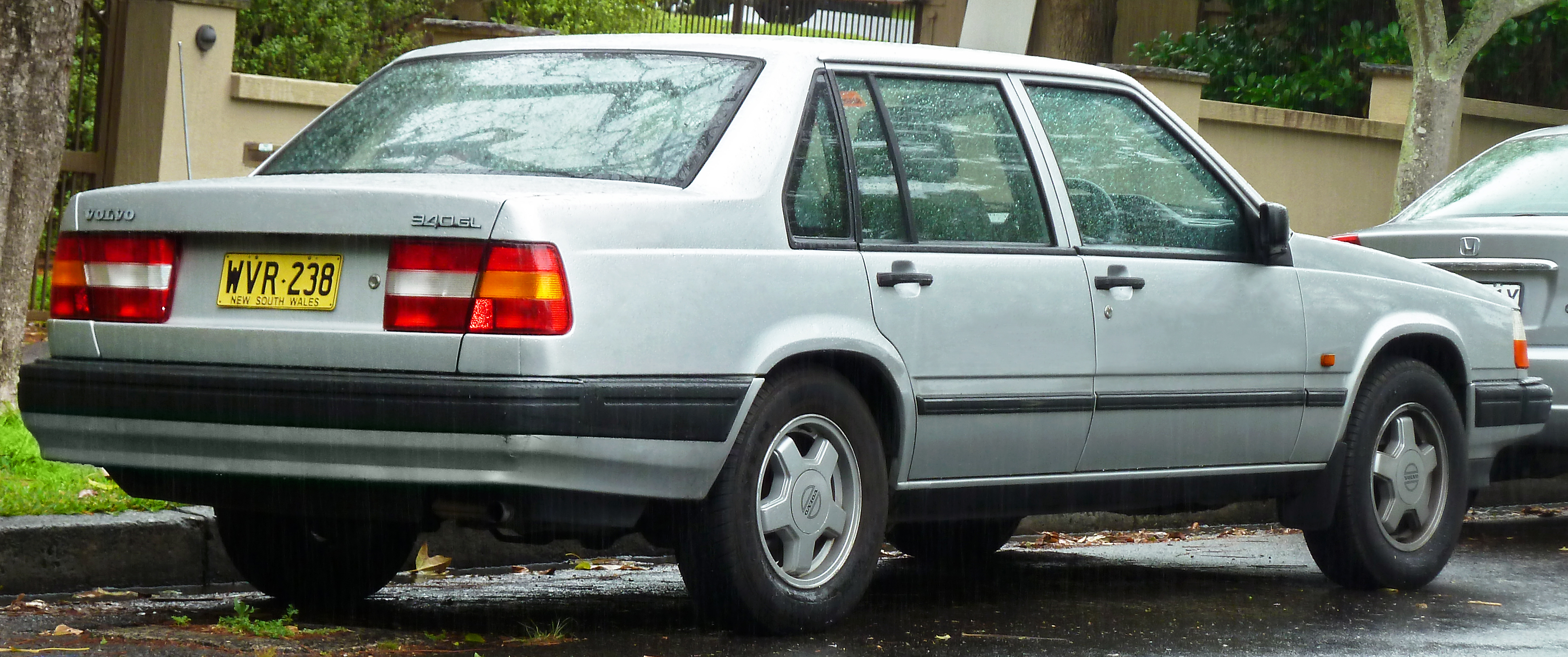 1991 Volvo 940 GL sedan. Photographed in Roseville, New South Wales, Australia.